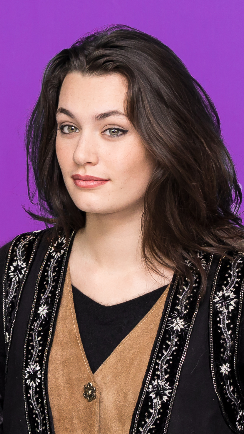 The Actress Ella Rumpf at the presentation of Tiger Girl at the Berlinale 2017